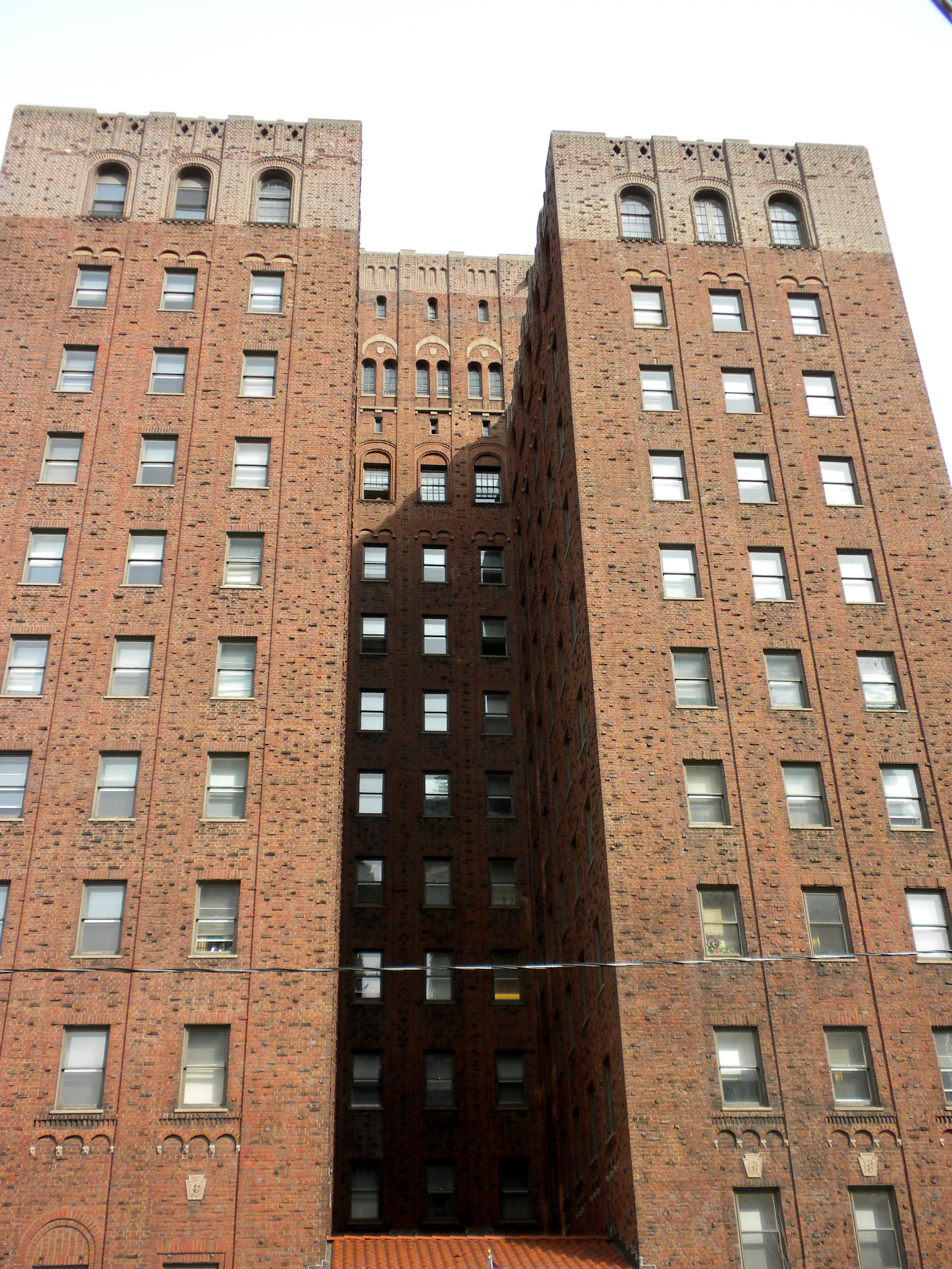 Warburton House in Philadelphia. On NRHP since August 22, 2002. At 1929 Sansom Street in Rittenhouse Square East neighborhood of Center City. Building seems to be involved in Catholic Social Services